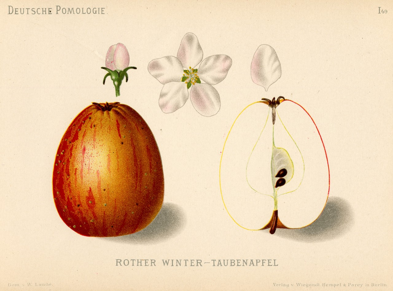 Illustration 49 from Deutsche Pomologie - Aepfel Apple cultivar shown: Rother Winter-Taubenapfel